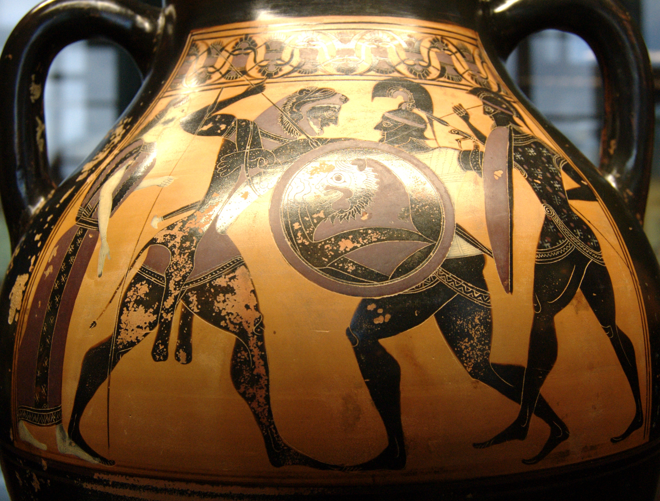 Heracles fighting Cycnus. Side A from an Attic black-figured amphora, ca. 540 BC.